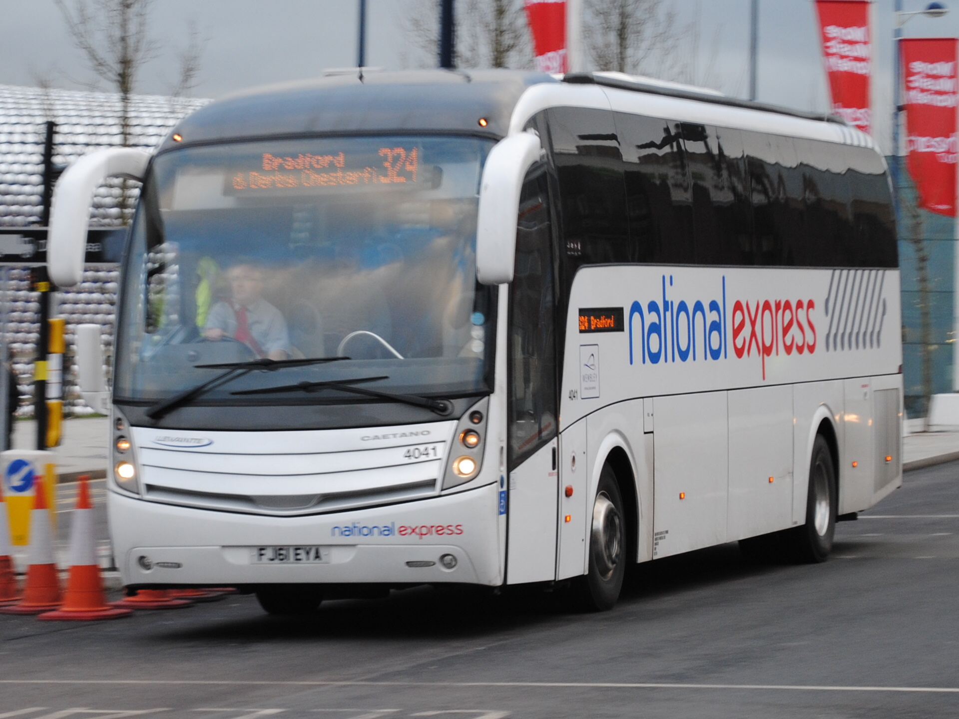 Volvo B9R Caetano Levante. National Express 324 Paignton - Bradford route seen here in Birmingham City Centre